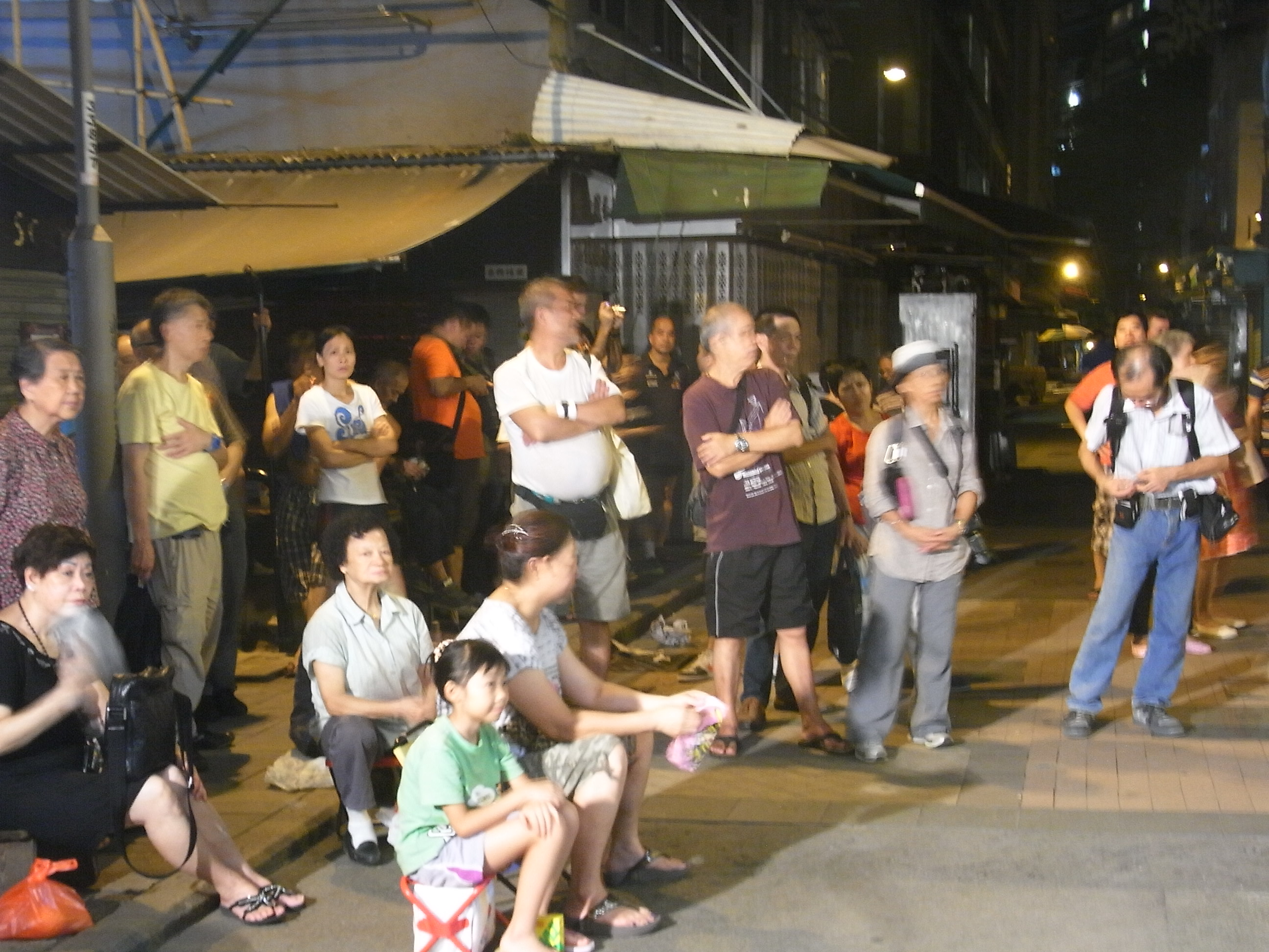 中元節與盂蘭盆節香港神工戲藝人表演, Yu Lan Festival, Sheung Wan, Hong Kong